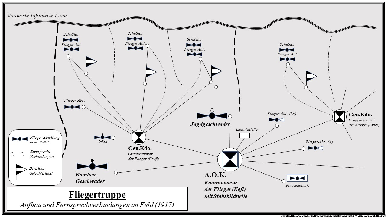 Structure and Communication Lines of German Field Balloon Service in WW1 (1918)